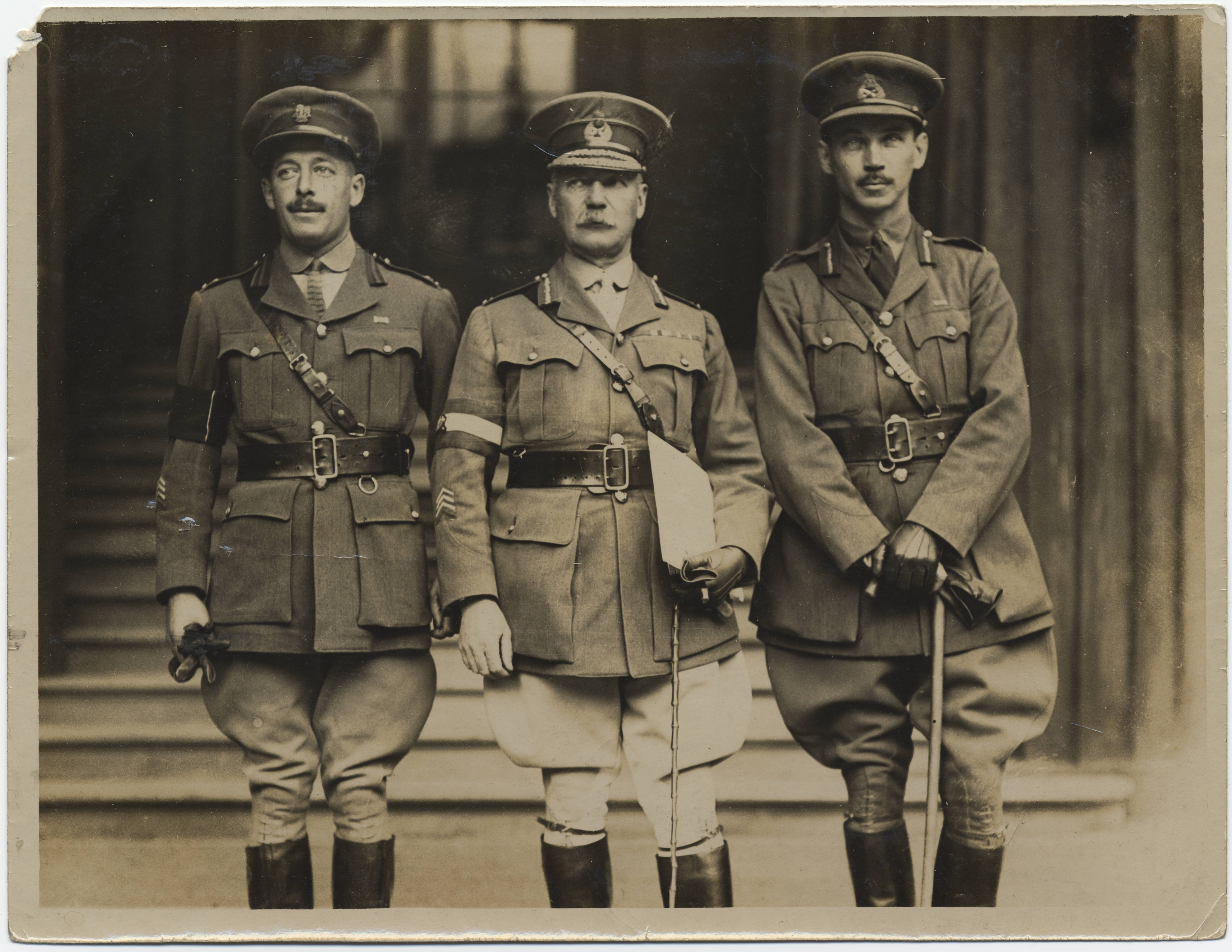 Item is a photograph from an album of World War One-related photographs in the William Okell Holden Dodds fonds. Brigadier General Dodds joined the Canadian Expeditionary Force in 1914 and was commanding officer of the 5th Canadian Division Artillery and served in France from 1917-1918.